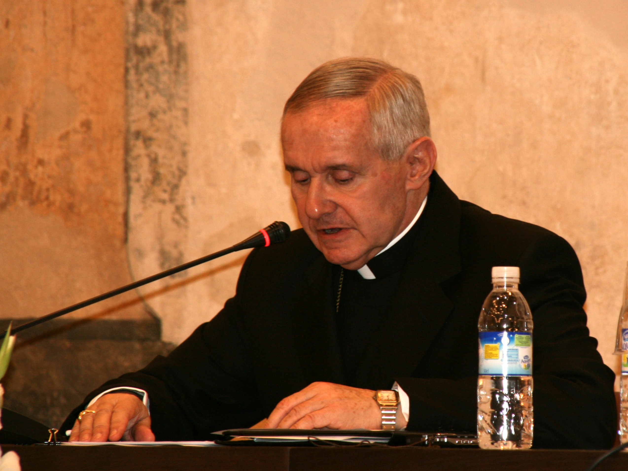 Jean-Louis Tauran during the opening speech of the "Islam, Christianity and Modernity" conference held at Granada from 10 to 12 February 2010.